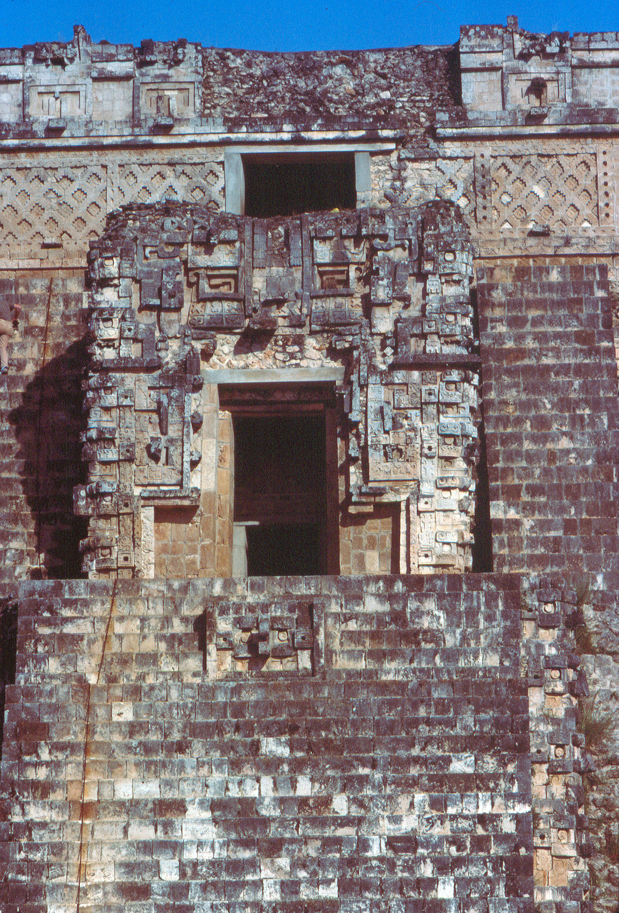 Uxmal, Yucatan, Mexico: Temple IV of the Pyramid of the Magician.